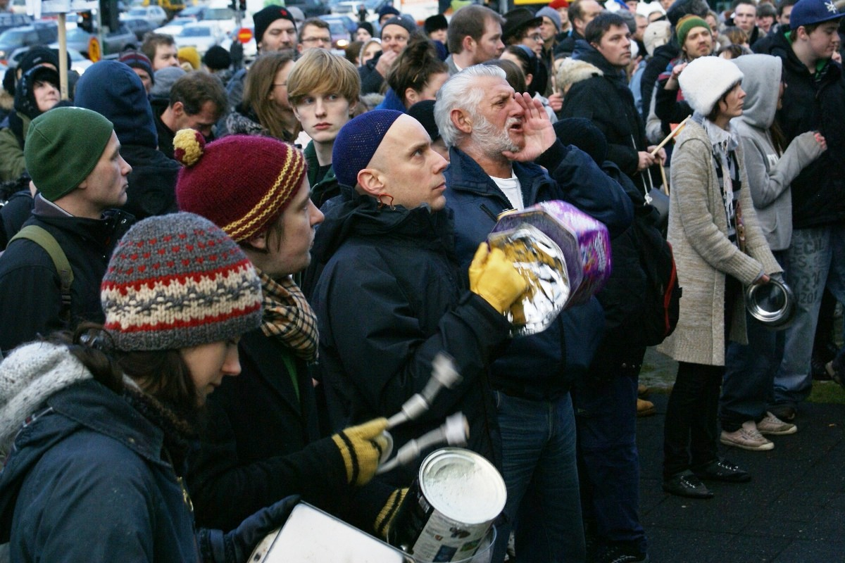 Week 15a 2009-01-21. Protesters by Stjornarrad the office of the prime minister.